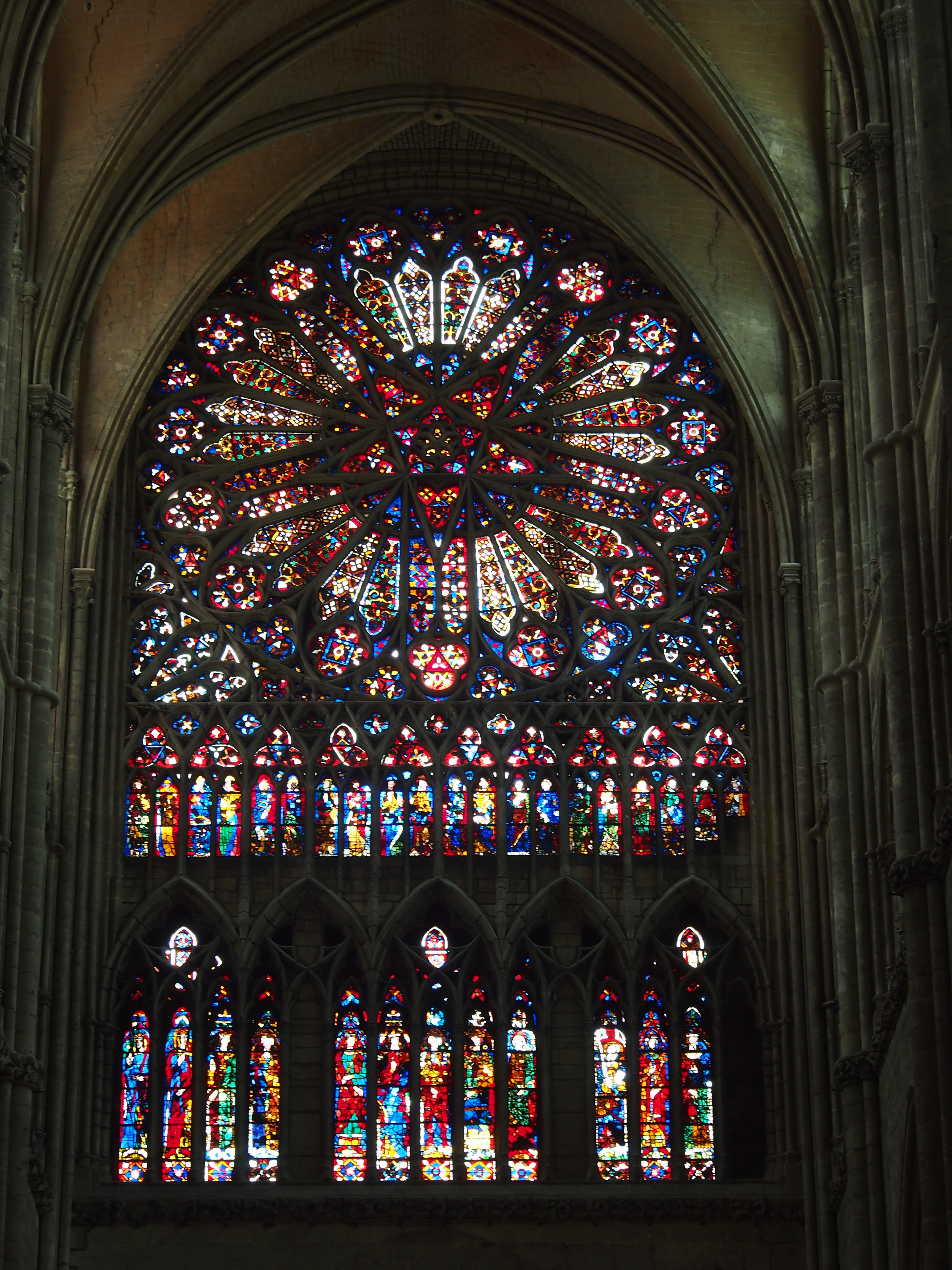 Photographed in Amiens Cathedral, France.